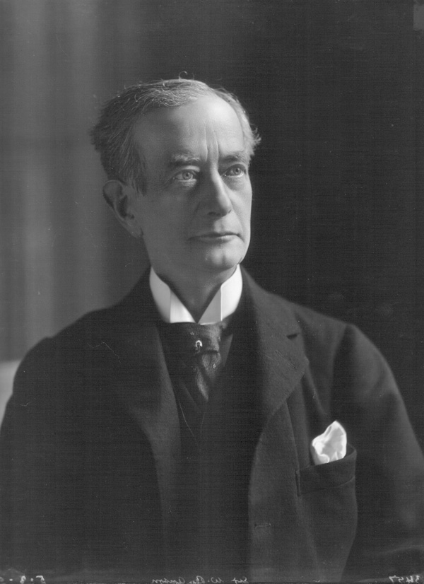 Sir William Reynell Anson, 3rd Bt. (1843-1914) photographed 5 March 1906